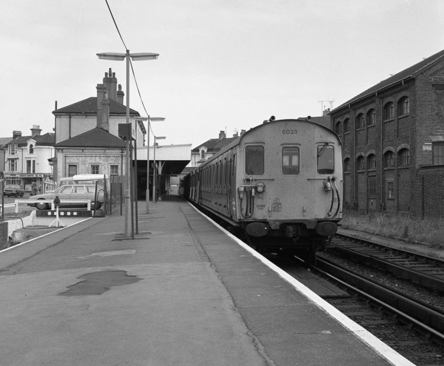 Class 414 "2HAP" EMU at Seaford station, Sussex